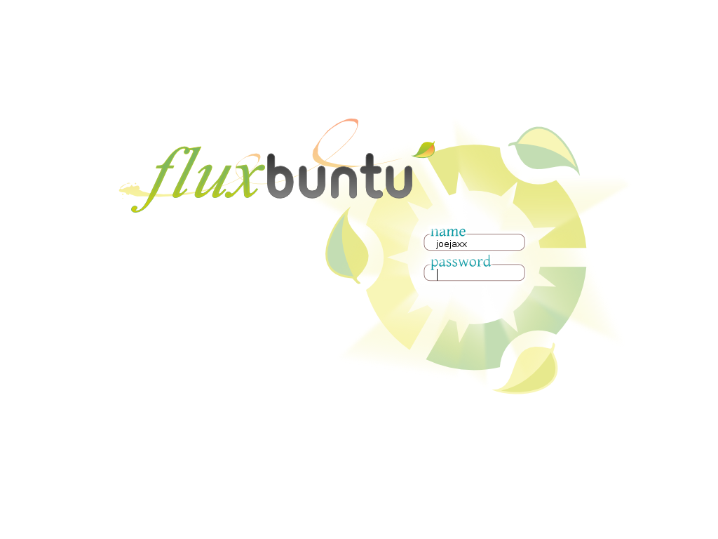 Fluxbuntu 7.10's display manager showing the login screen